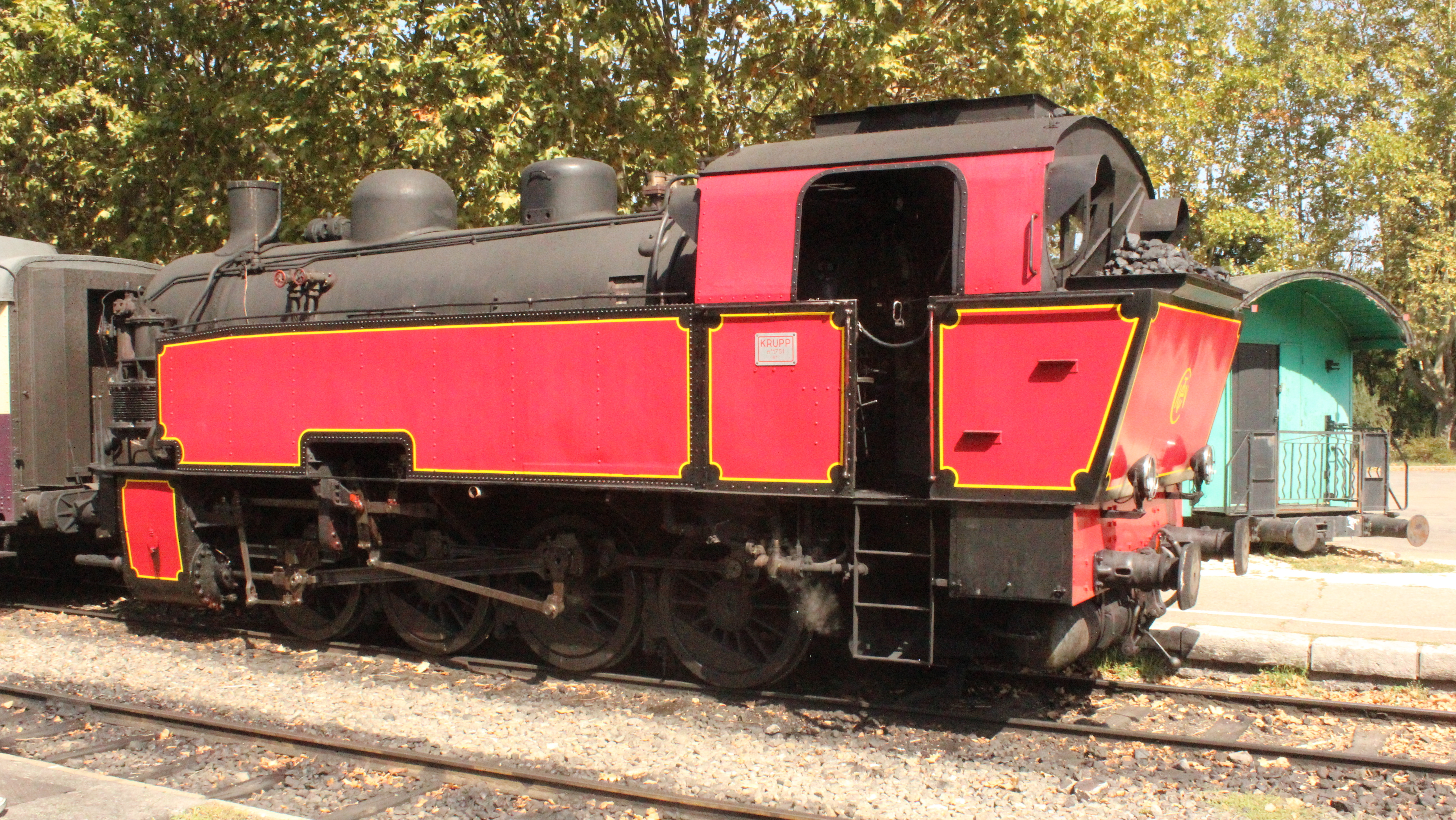 Krupp 0-8-0T Industrial steam engine "040 T 1751", built in 1937 was acquired by the Train à Vapeur des Cévennes (Cevennes heritage railway) in 1991, was restored to running order and resumed service in March 1999. The 14.4 km railway links Anduze and Saint-Jean-du-Gard.